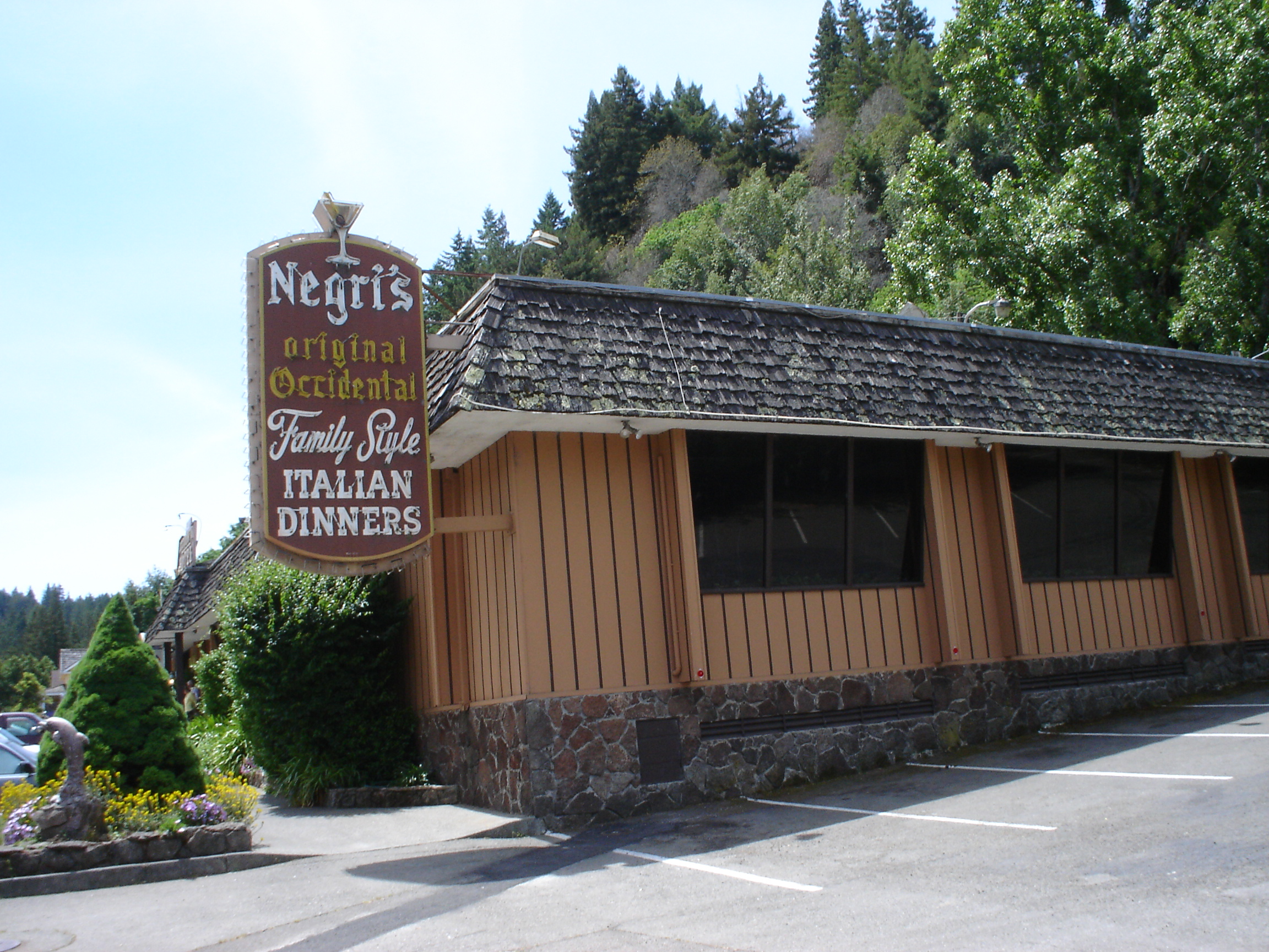 Negri's restaurant, Occidental, California